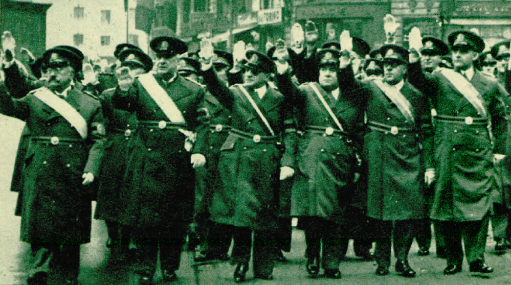 Leaders of Romania's single party, the National Renaissance Front, giving Roman salute while parading on Calea Victoriei upon the one-year anniversary of the authoritarian Constitution. From left: Alexandru Vaida-Voevod, Constantin Argetoianu, Armand Călinescu, Victor Iamandi, Victor Slăvescu, Mihail Ghelmegeanu.